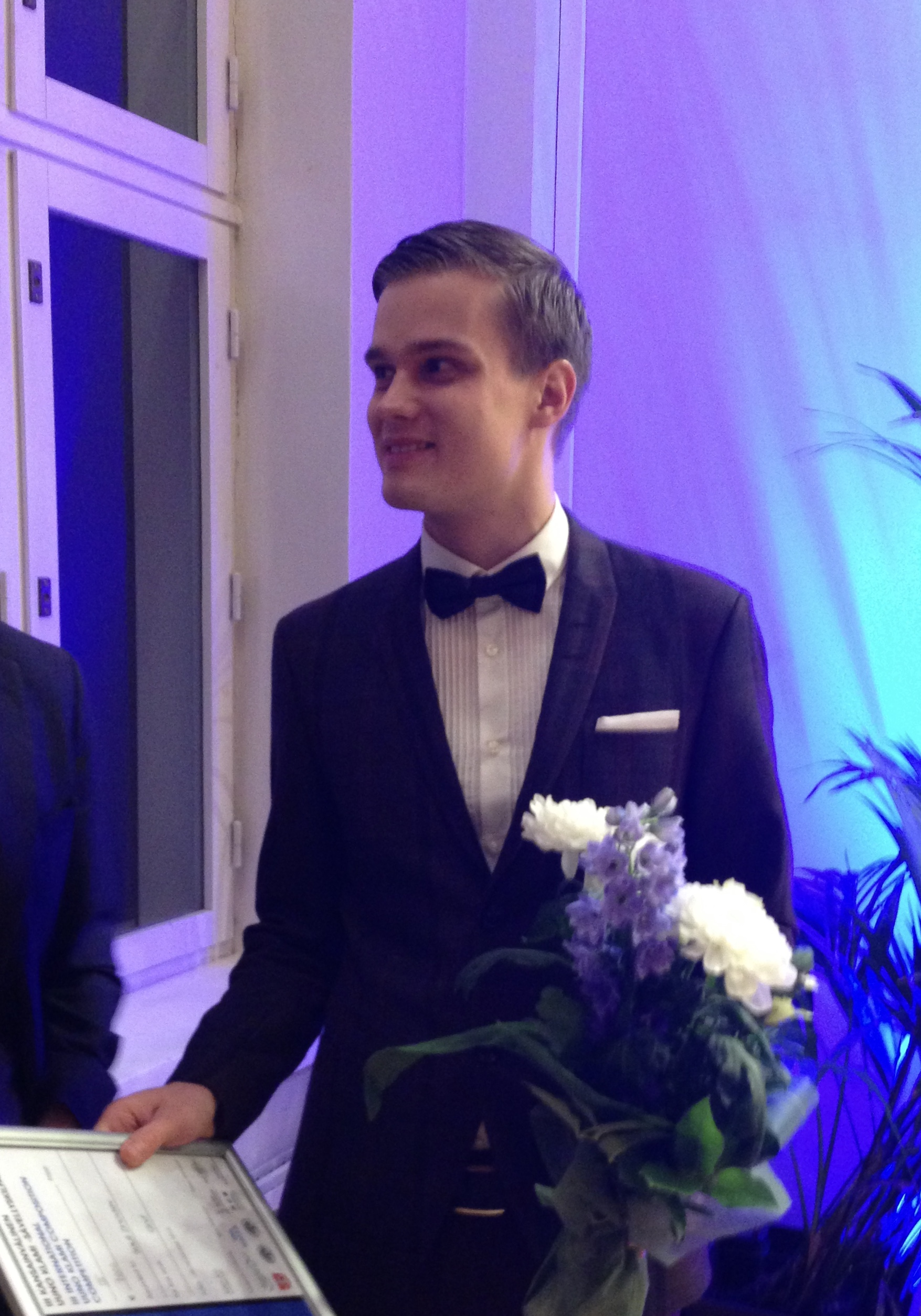 Finnish composer Sauli Zinovjev photographed after the Prize Ceremony of 3rd International Uuno Klami Competition, November 14th, 2014.